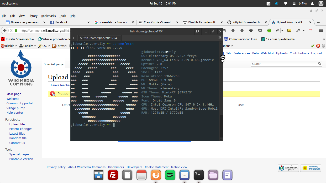 Screenshot of ScreenFetch on Elementary OS Freya 0.3.2